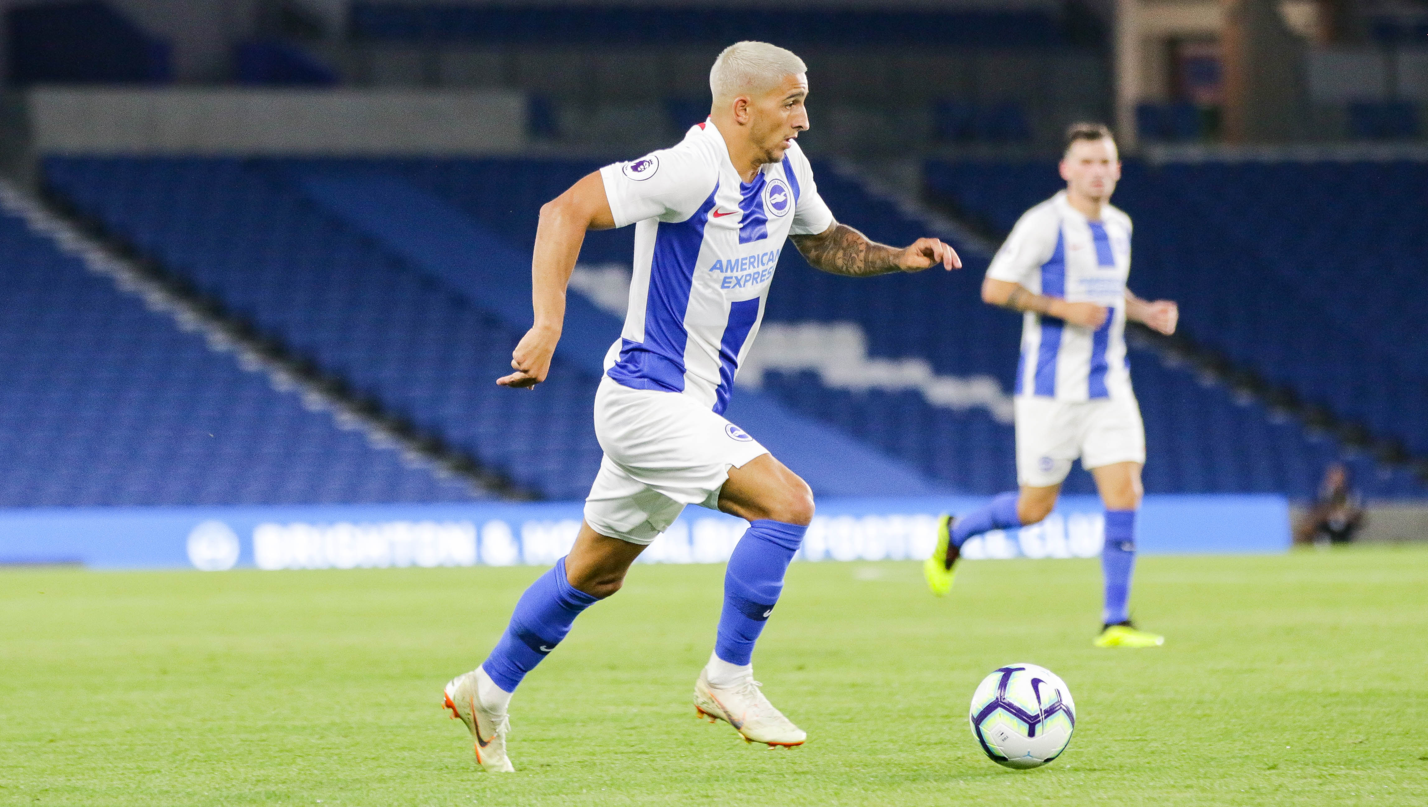 BHA v FC Nantes pre season 03 08 2018-812.jpg